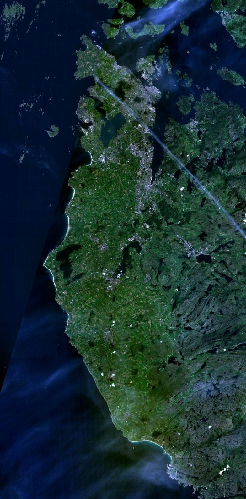 Satellite imagery of the beaches on Jæren in Rogaland, on the southwestern coast of Norway.